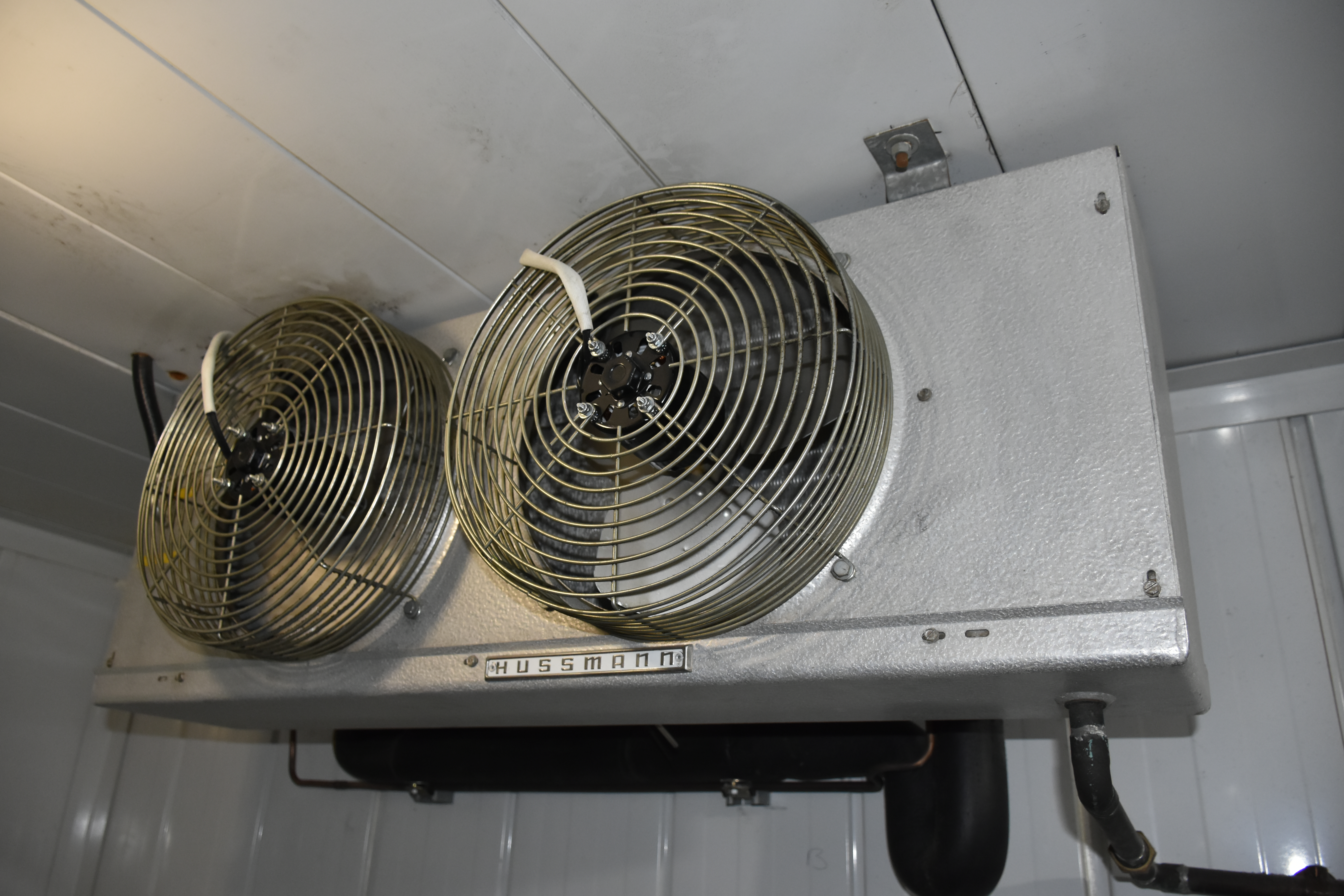 An R-410A refrigerant based fan-coil unit installed in a walk-in cooler.